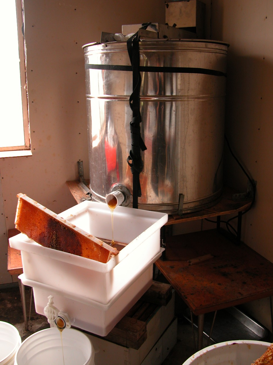 Self made.